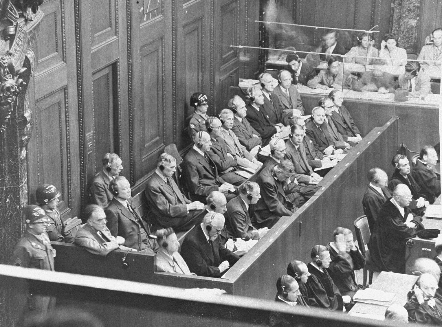 The defendants in the dock on the first day (August 27, 1947) of the IG Farben Trial. The defendants Brüggemann and Carl Wurster are missing. Brüggemann's case was dropped on September 9, 1947 due to medical reasons, and Wurster was arraigned only on September 17, 1947.